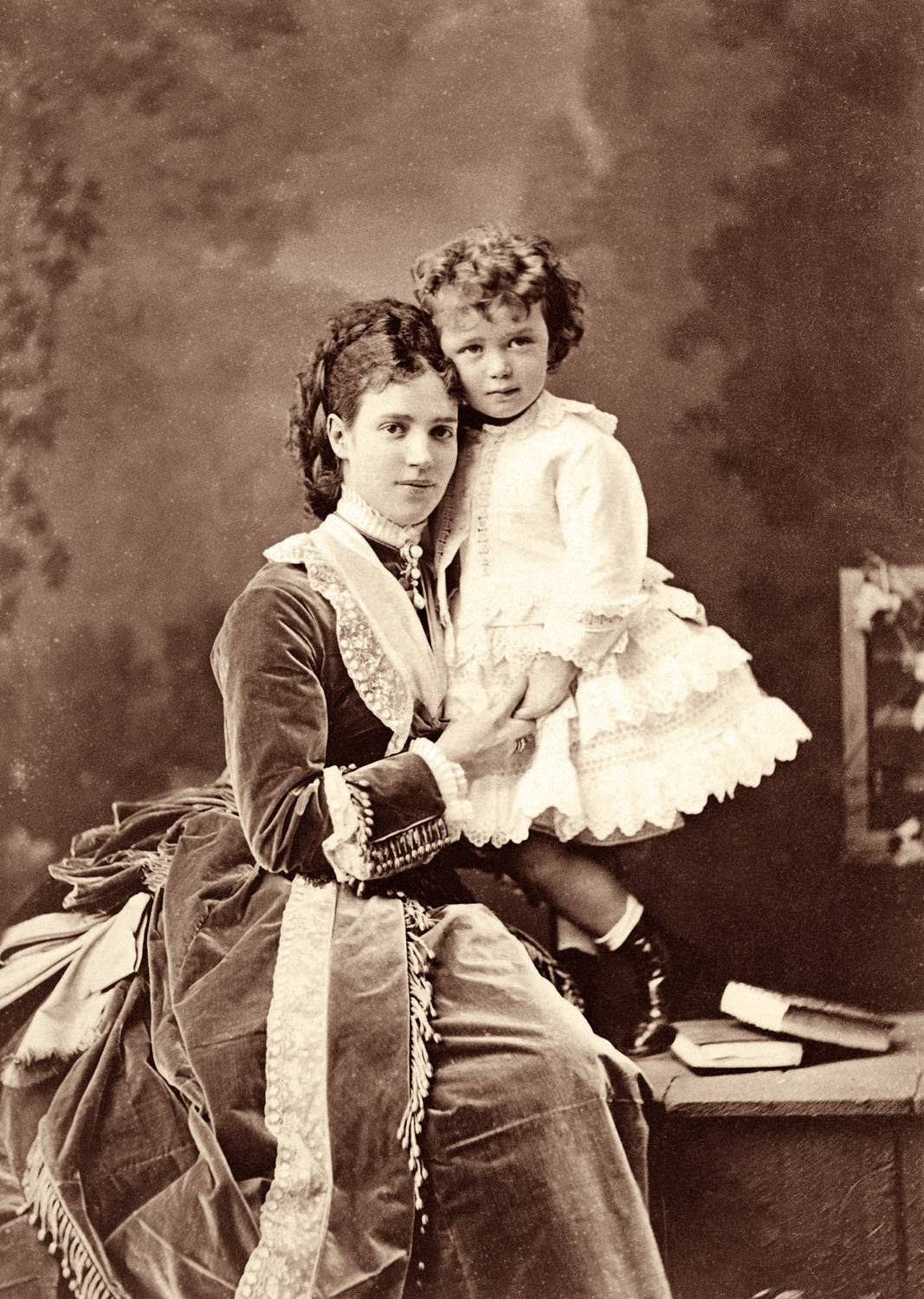 Maria Fyodorovna and her son Niki